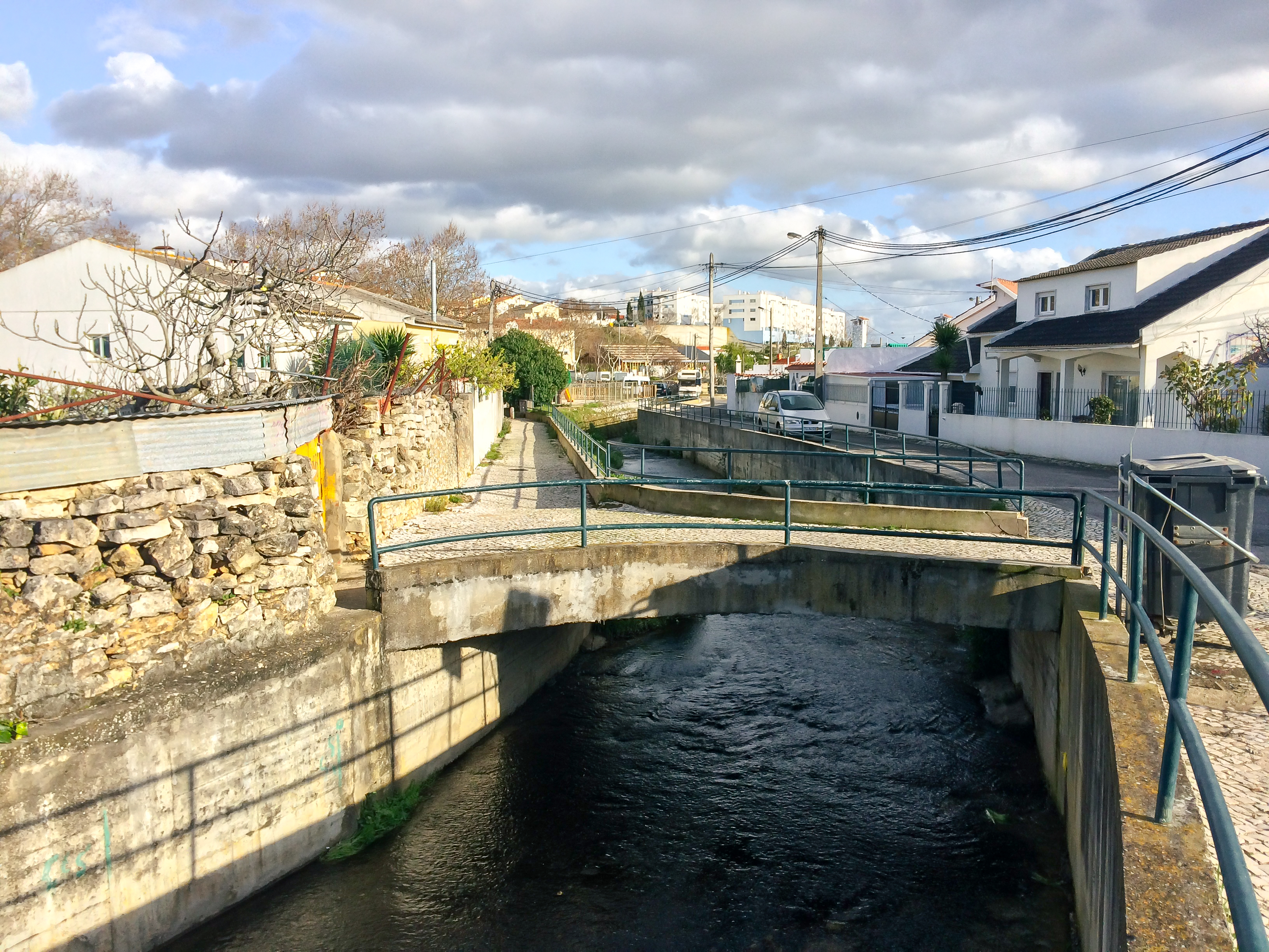 Leito da ribeira à entrada de Tires.